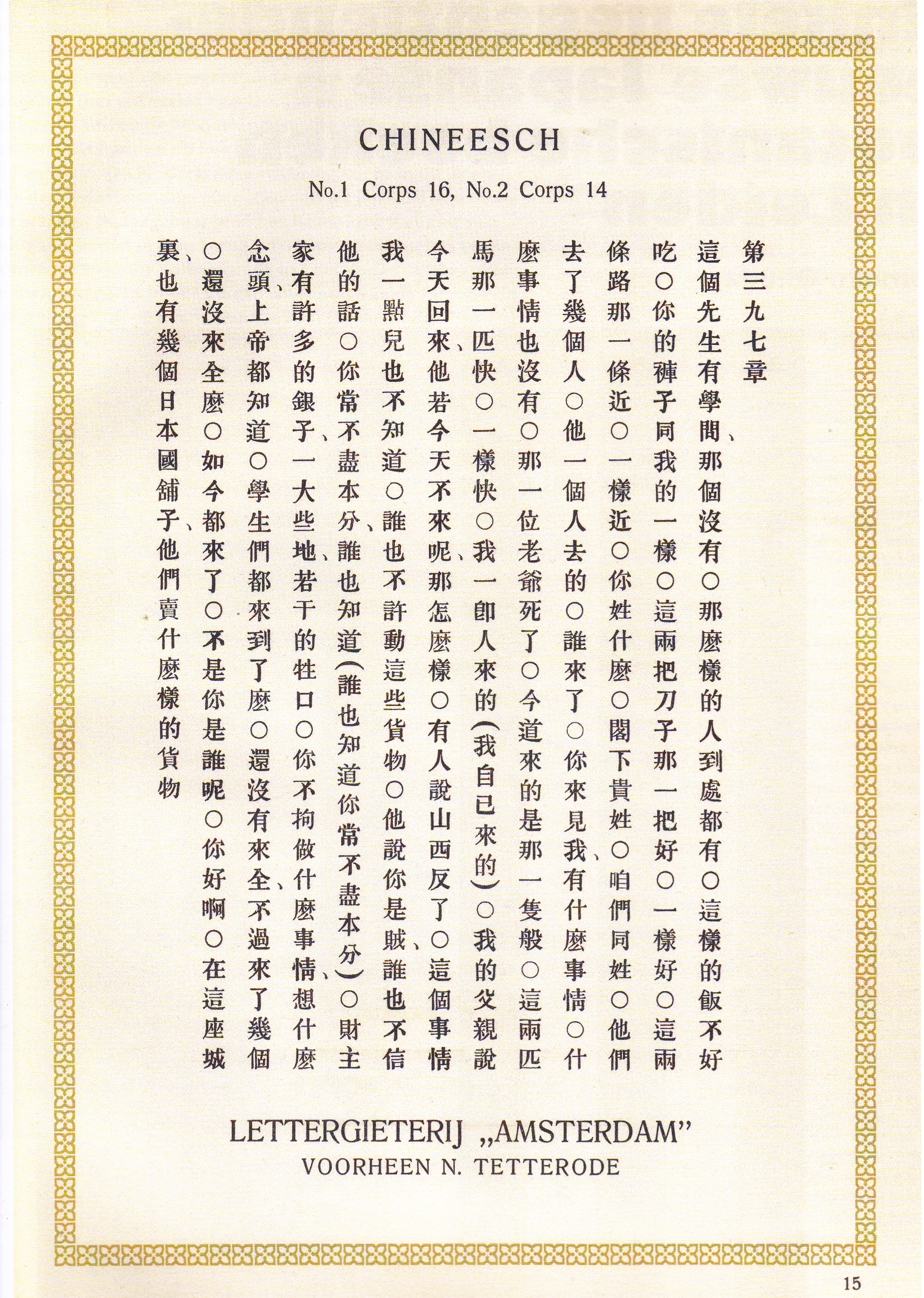 Examples of Chinese print characters by Dutch firm Tetterode Amsterdam, ca. 1910